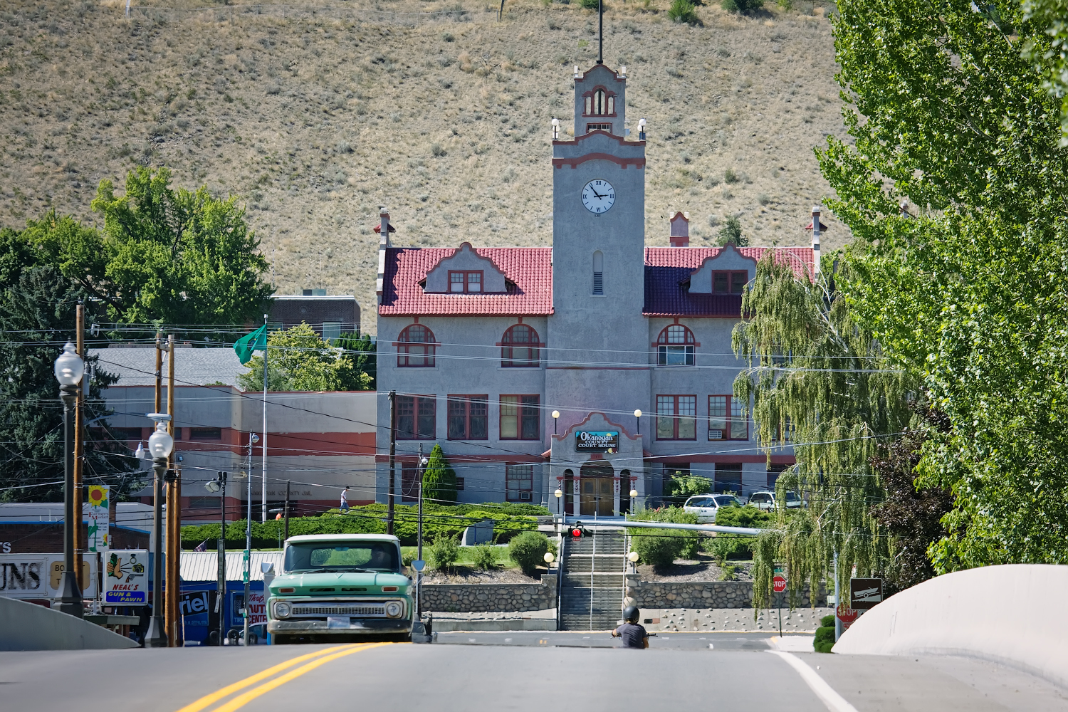 Okanogan County Courthouse, Okanogan, Washington, USA.